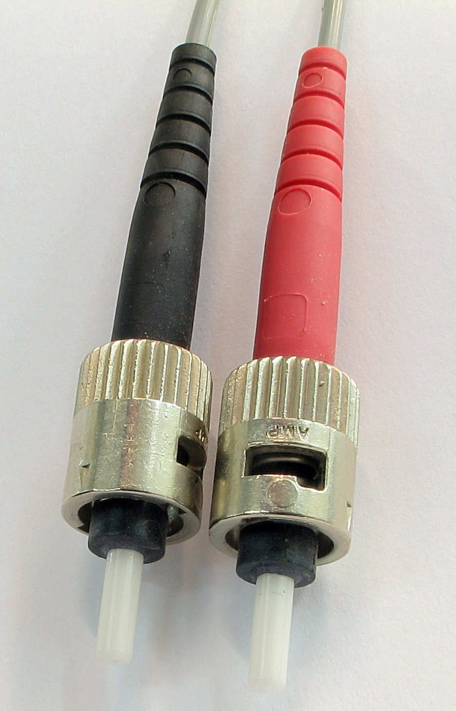 ST optical fiber connector.